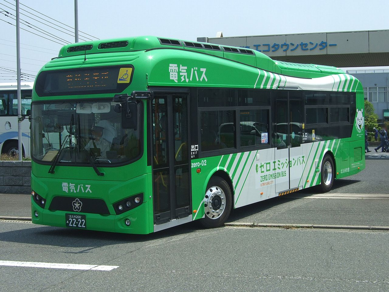 Zero-Emission EV bus in Kitakyushu City. It is built by Hankuk Fiber, Toray Engineering, and Mitsubishi Heavy Industries. 北九州市交通局が運行する電気バス。韓国ファイバー・東レエンジニアリング・三菱重工業製。